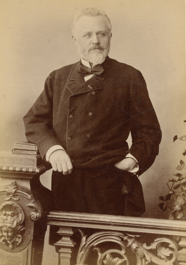 Goldenberg, Alfred (1831-1897)